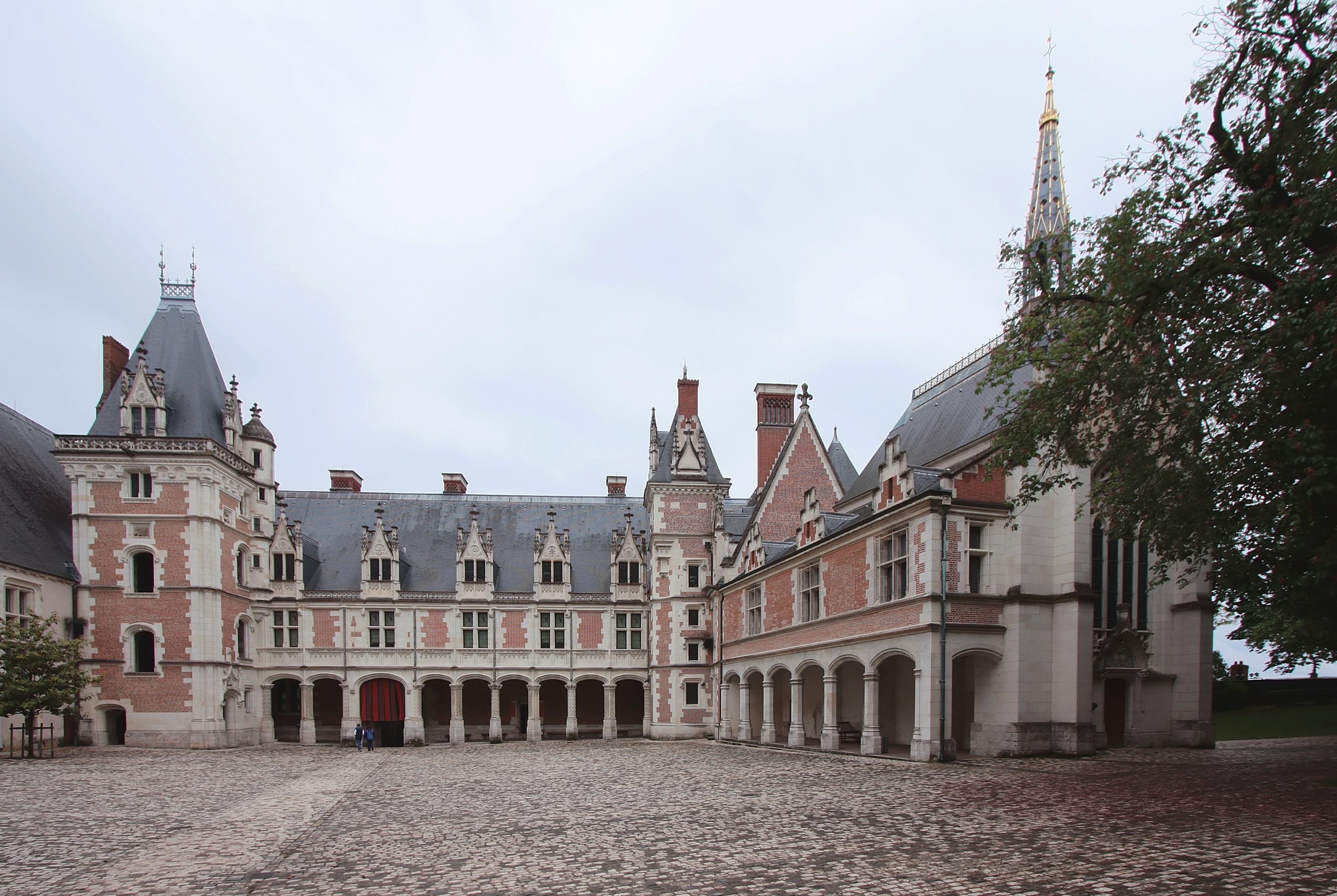 Château de Blois, Département Loir-et-Cher/France - Interior view of the Louis XII wing, including the chapel on the right.